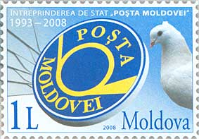 Stamp of Moldova, 15th ann. of Post of Moldova, 2008.